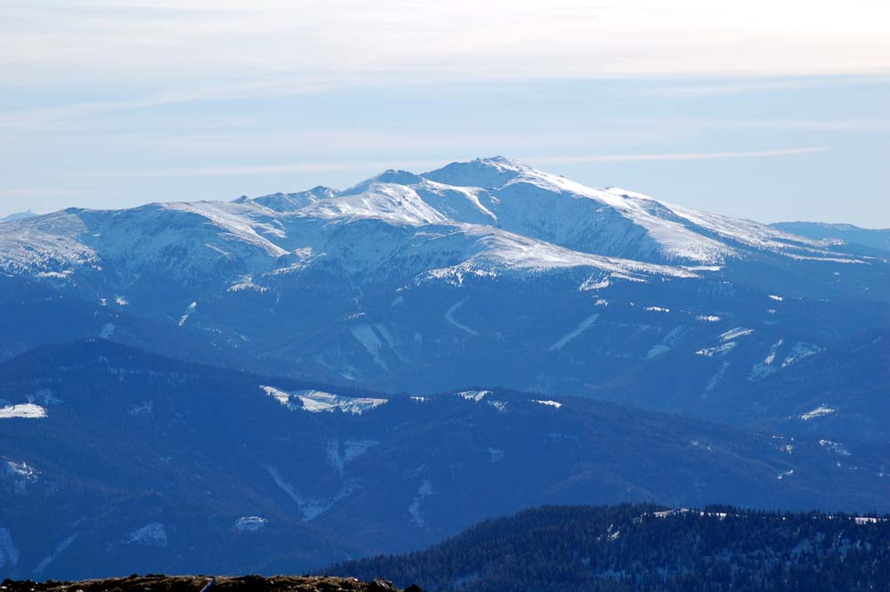 Seetaler Alpen with highest point Zirbitzkogel as seen from NW, Lachtal, Styria, Austria